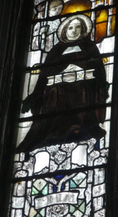 Detail from Christopher Whall window in Gloucester Cathedral.